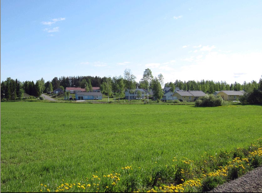 Mulo Joensuu